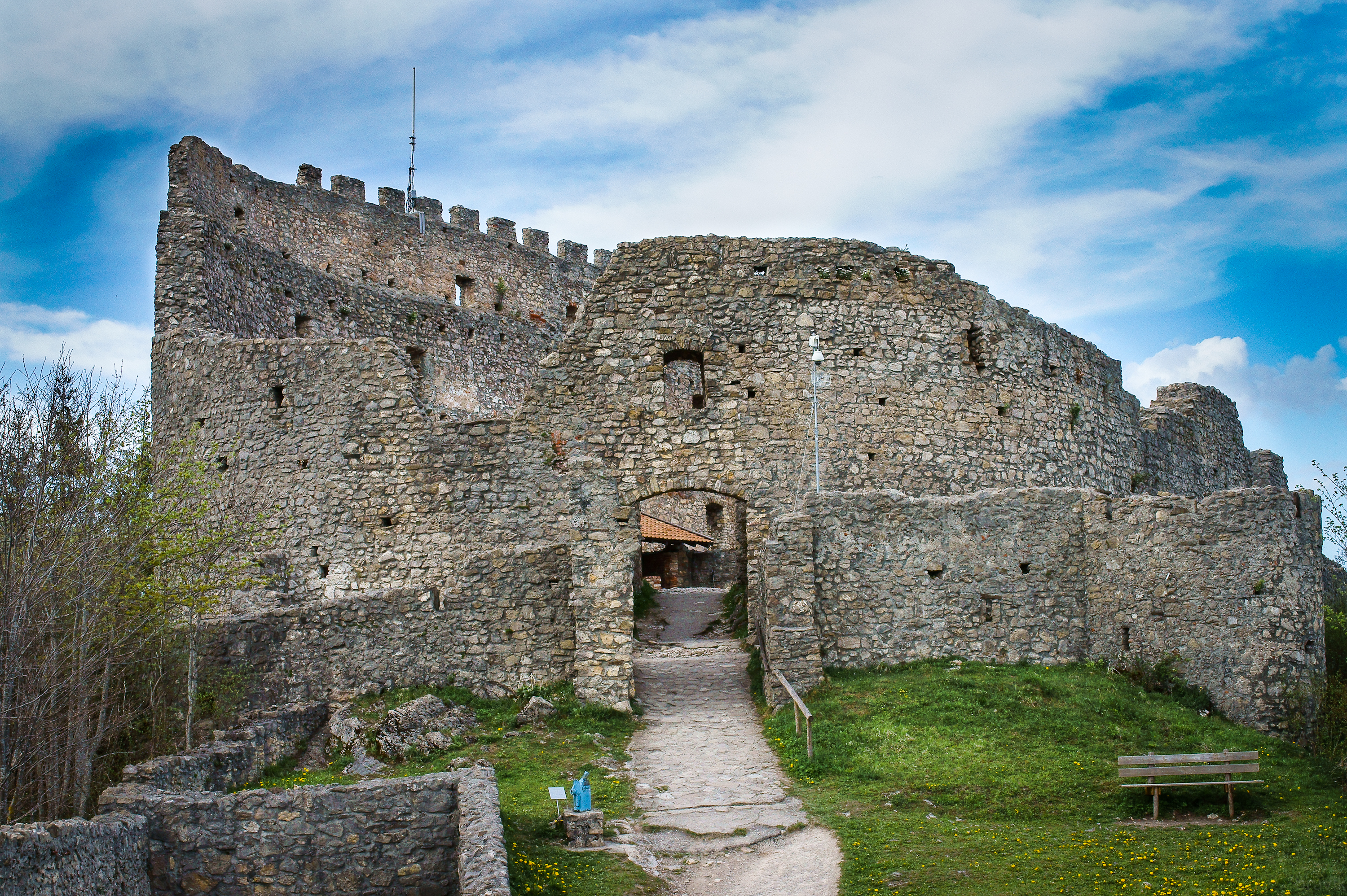 Main entrance to inner yard of Eisenberg Castle